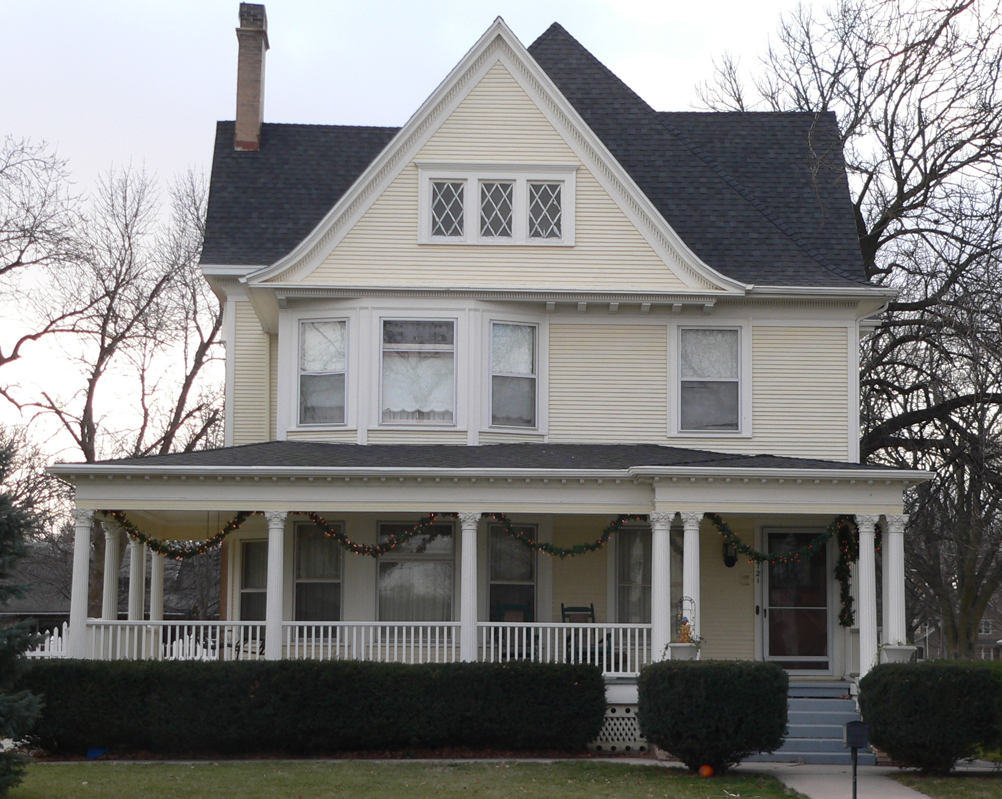 Streeter-Peterson House at 1121 9th St, Aurora, Nebraska; seen from the east. The building was designed in Neoclassical and Queen Anne style by architects Johnson & Henthorn, and was built in 1900. It is listed in the National Register of Historic Places.